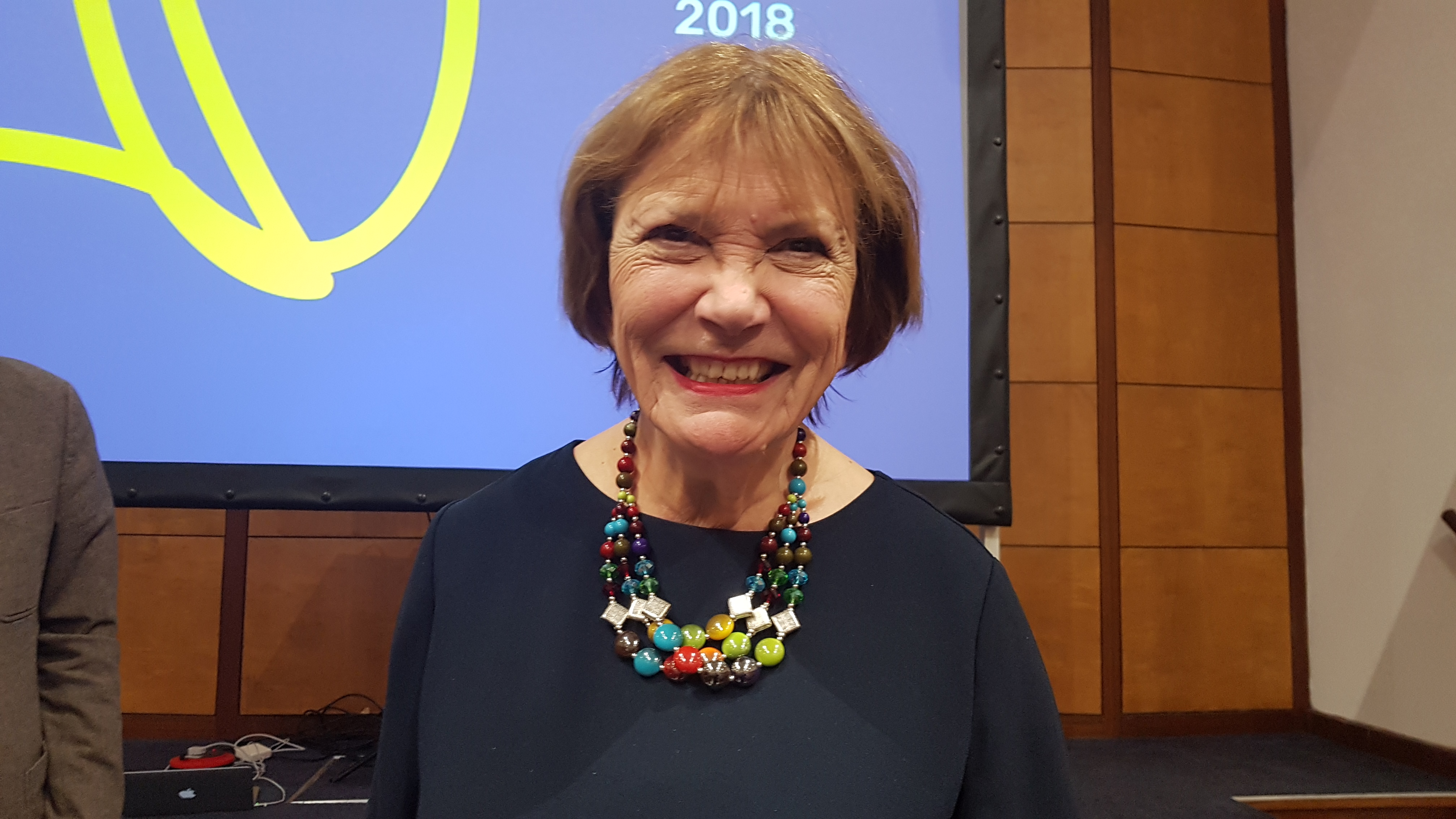 Joan Bakewell giving the Holyoake Lecture 2018 in Manchester